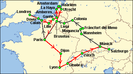 Map of the major places visited by the Mozart family in their Mozart family Grand Tour of Europe. Modern national boundaries are shown for reference.